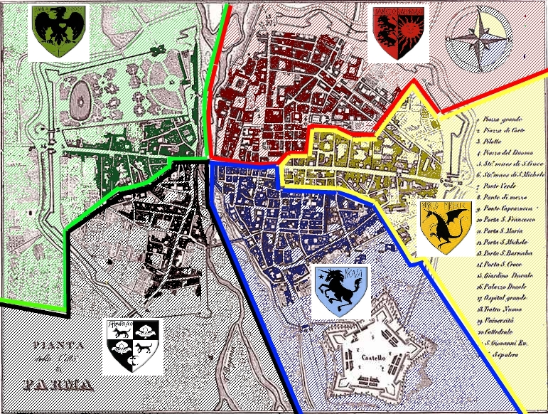 Map showing the division of the historical center in 5 different parts, which are in competition to win the "Palio".